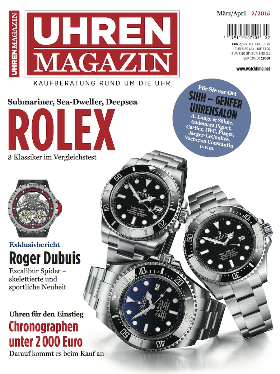 Actual design of a Uhren-Magazin Cover